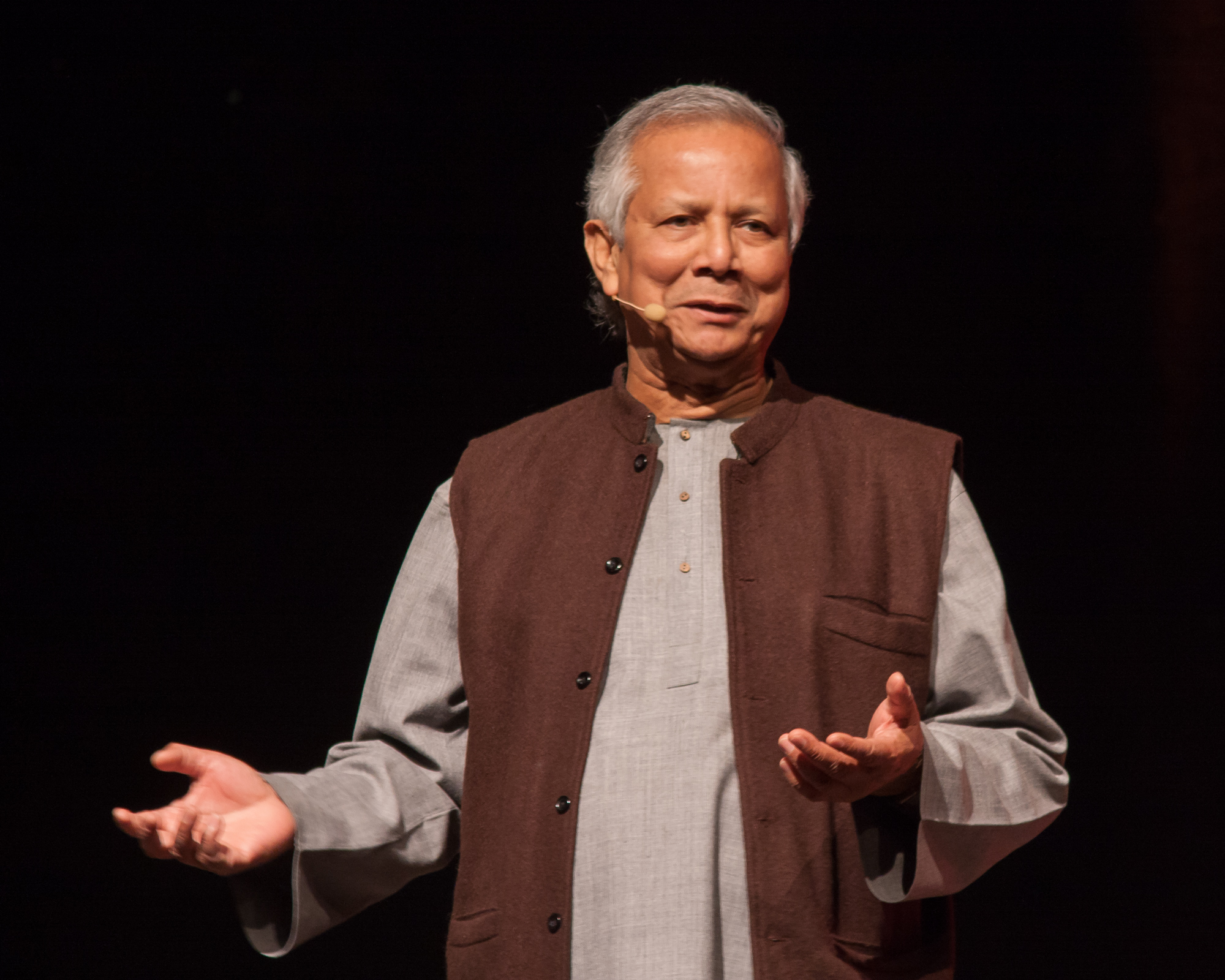 Nobel Peace Prize recipient Prof. Muhammad Yunus at an YY Foundation event in the cultural centre "Schlachthof" in Wiesbaden, Germany